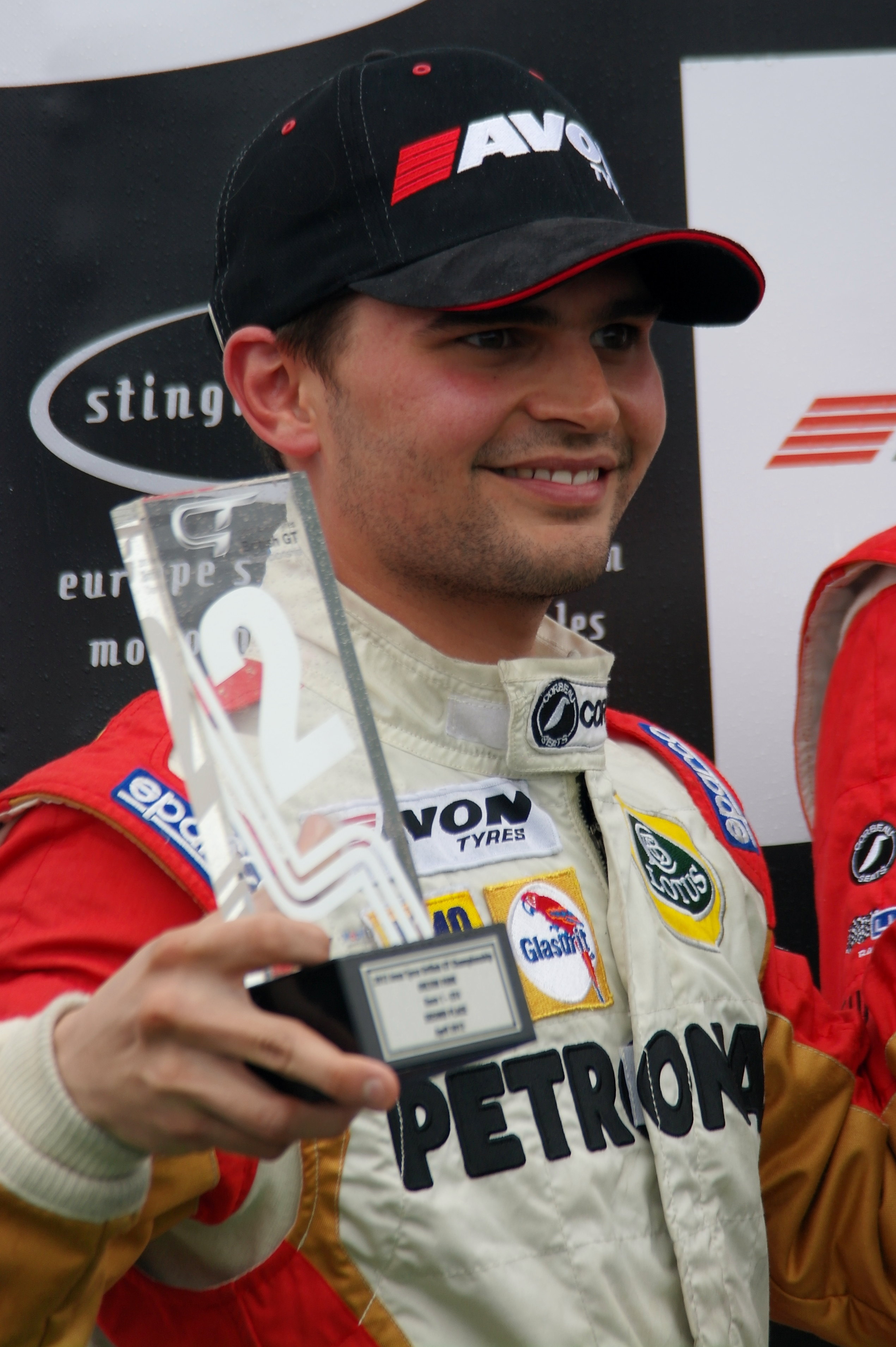 Phil Glew as a driver for Lotus Sport UK at the first round of the 2012 British GT season at Oulton Park.